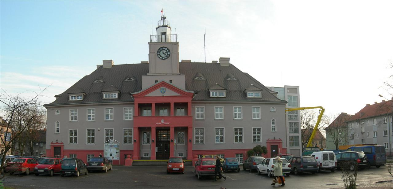 Kędzierzyn townhall.